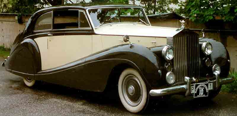 Rolls-Royce Silver Wraith Fixedhead Coupé 1952